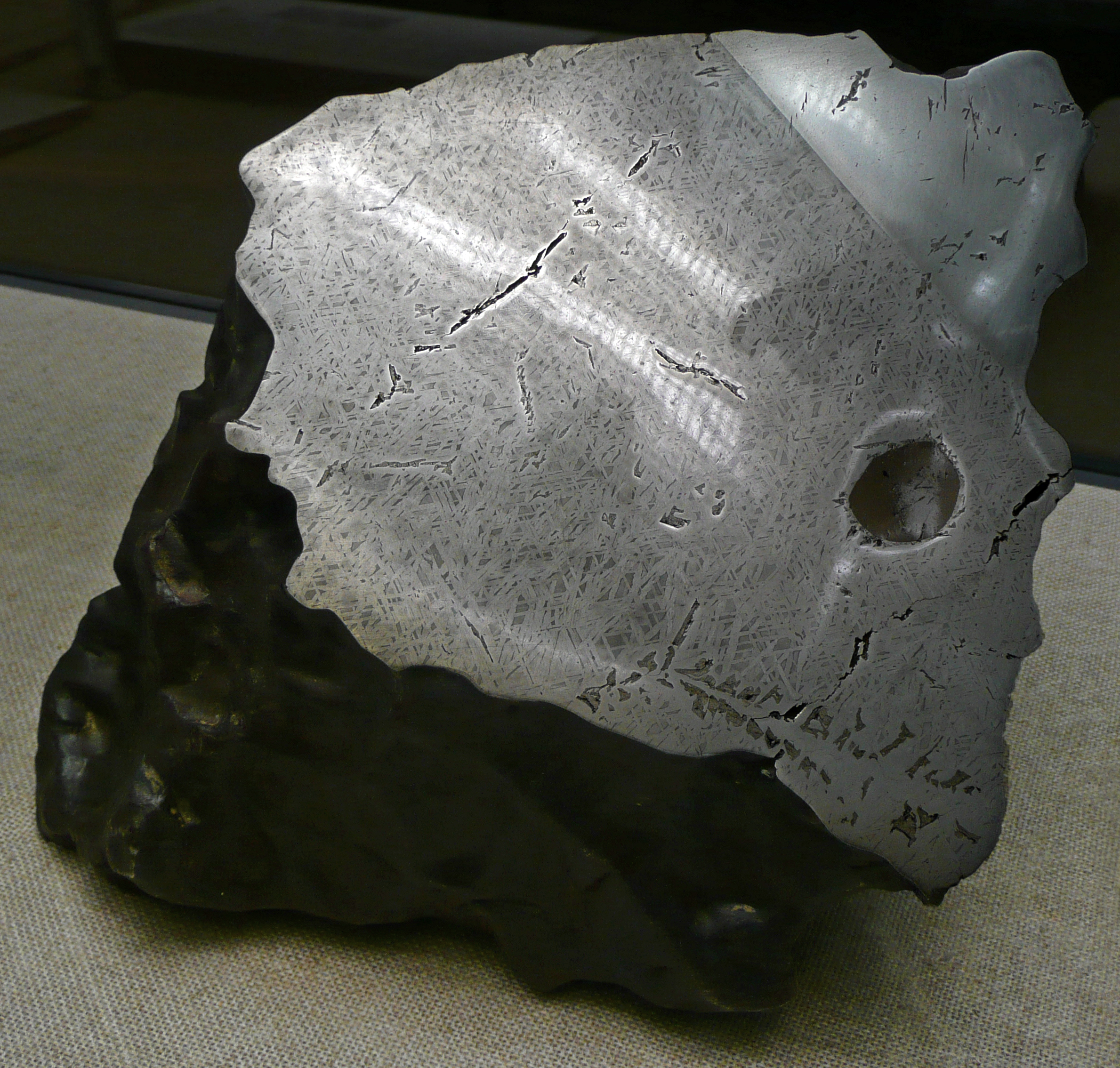 Meteorite of Treysa (mainpart) in the Mineralogisches Museum in Marburg fallen on April 3, 1916 into a forest near Rommershausen near Treysa in Hesse, Germany. Iron meteorite of iron-nickel (Mean Oktaedrit, group III B-ANOM) with Widmanstätten pattern, Weight after finding 63.3 kg, depth of impression: 1.6 m, crater ca. 1.5 x 1 m.